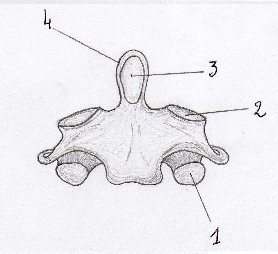 Human second cervicalis vertebra, or axis (C2), front view.